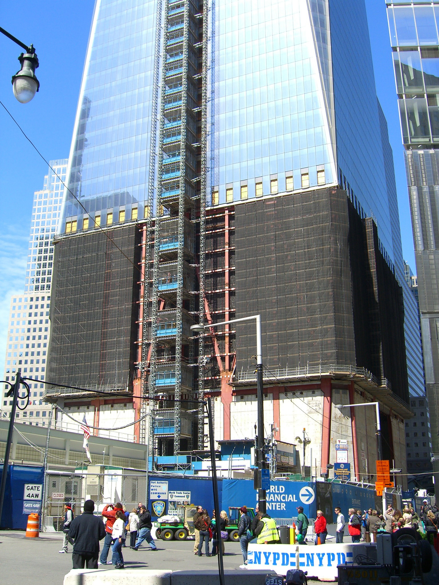 The under-construction One World Trade Center, or "Freedom Tower", as seen on April 28, 2012. Construction has reached the one hundredth floor at this point, leaving four floors left. This photo was created by Luigi Novi. It is not in the public domain, and use of this file outside of the licensing terms is a copyright violation.